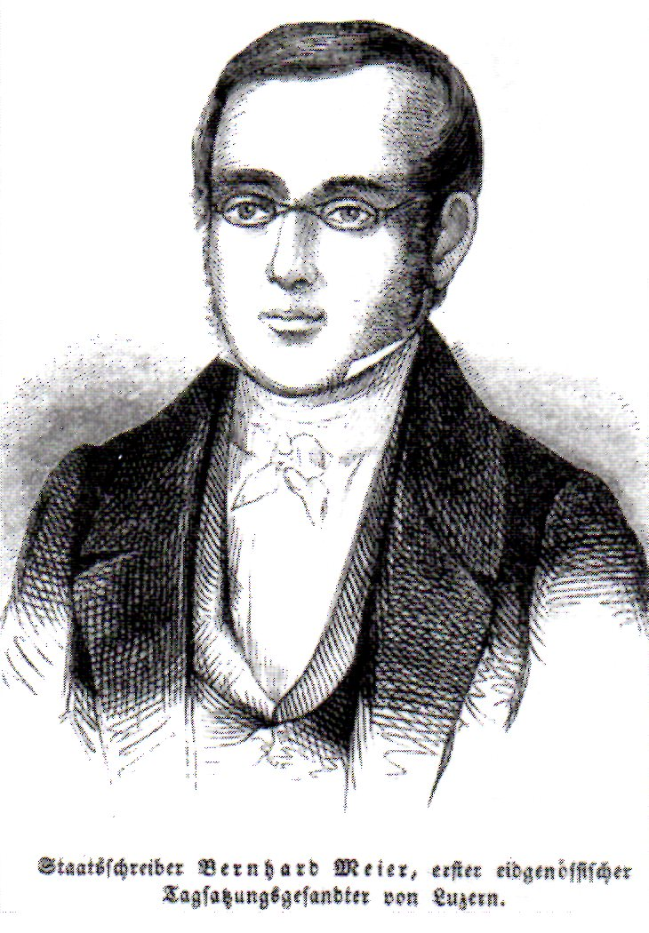 Bernhard Meyer (1810-1874), Swiss politician of Lucerne